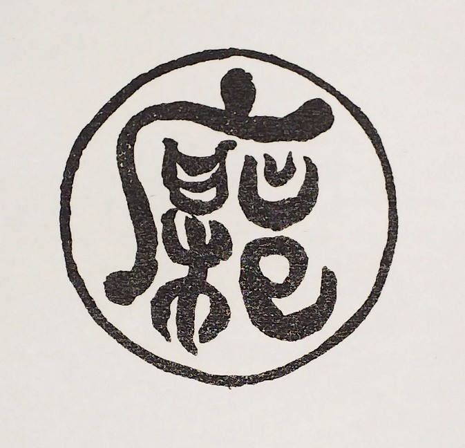 Kyoto Shimabara Symbol